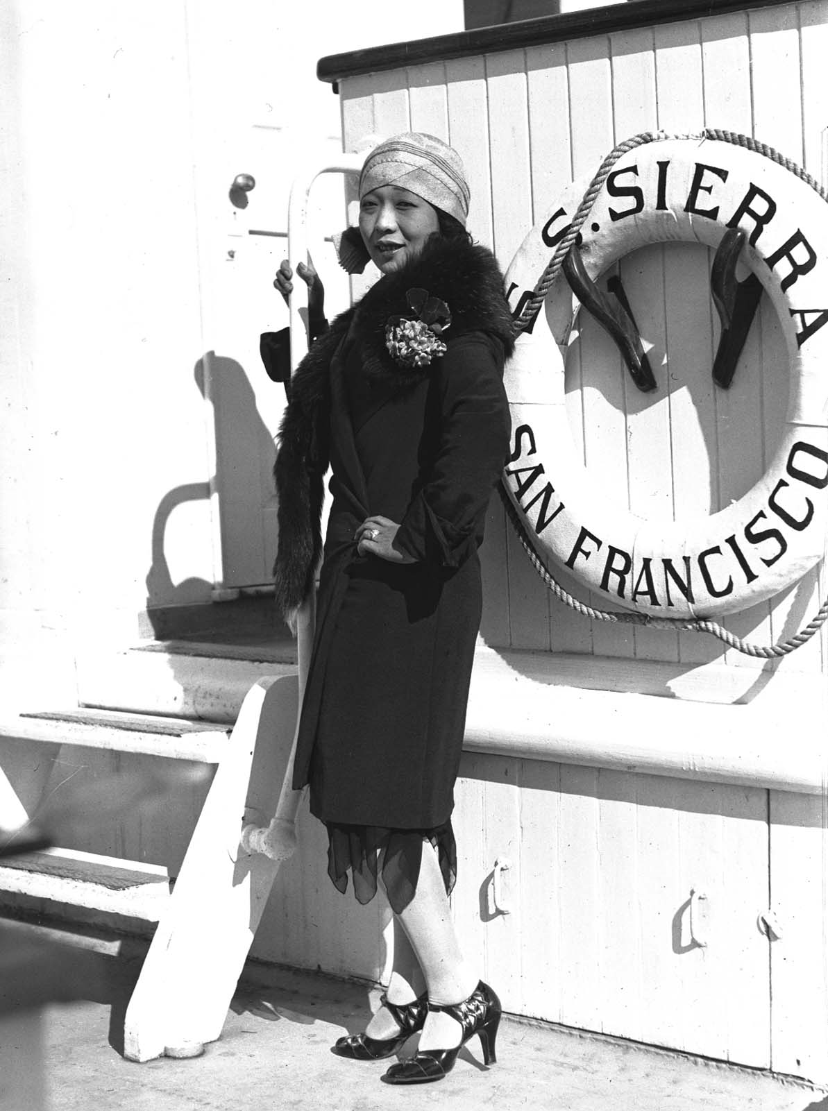 This photograph depicts Japanese vaudeville performer, singer and comedienne, Kono San (or Konosan), at a Movietone event board SS SIERRA. The photograph was probably taken on 8 August 1929 at Circular Quay during the welcoming and celebrations of the arrival of Australia's first Movietone News truck. Kono San was on her Australian tour and performed at Melbourne's Tivoli Theatre the day after her arrival in Sydney. This photo is part of the Australian National Maritime Museum’s Samuel J. Hood Studio collection. Sam Hood (1872-1953) was a Sydney photographer with a passion for ships. His 60-year career spanned the romantic age of sail and two world wars. The photos in the collection were taken mainly in Sydney and Newcastle during the first half of the 20th century. The ANMM undertakes research and accepts public comments that enhance the information we hold about images in our collection. This record has been updated accordingly. Photographer: Samuel J. Hood Studio Collection Object no. 00034656